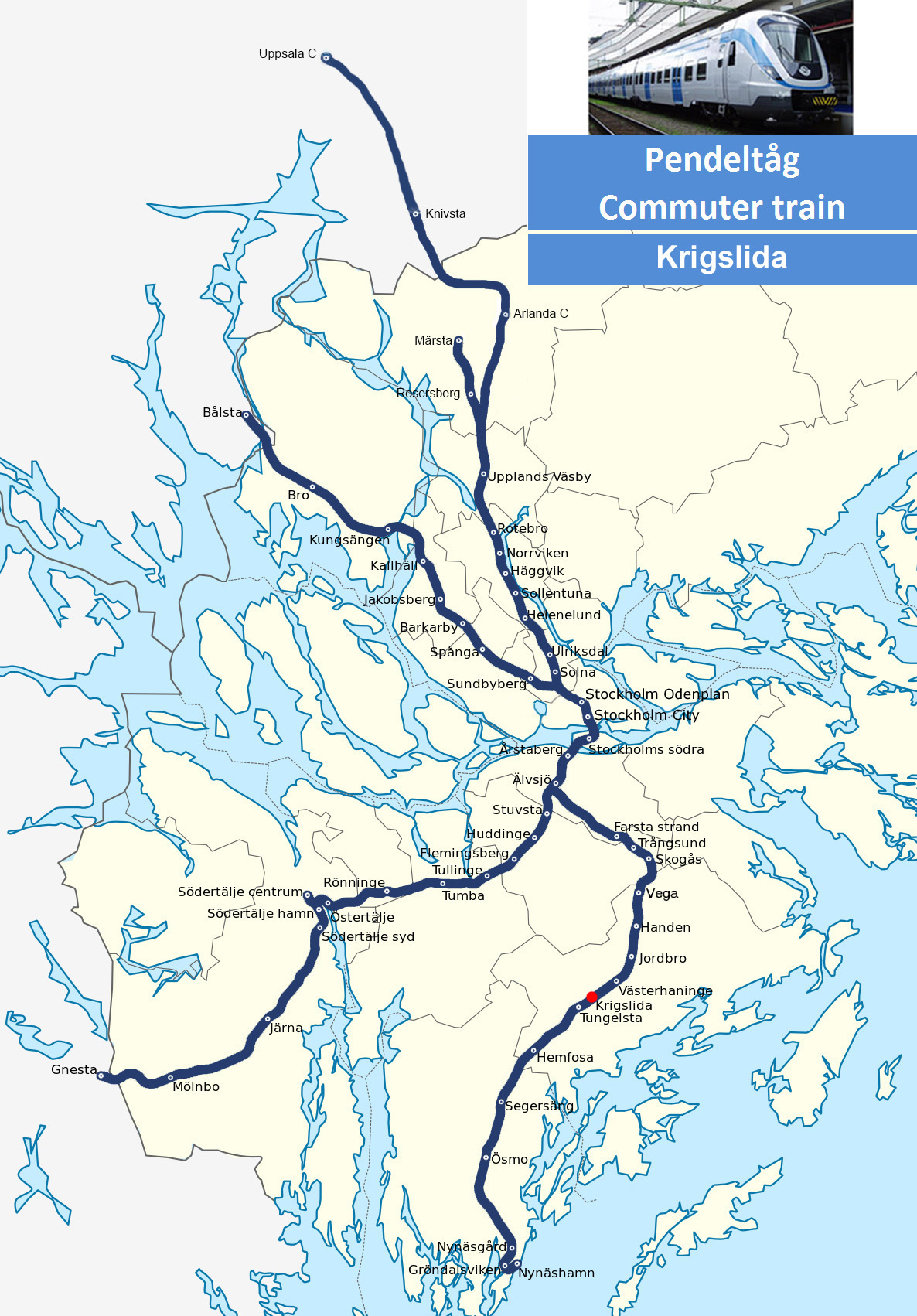 Krigslida station map